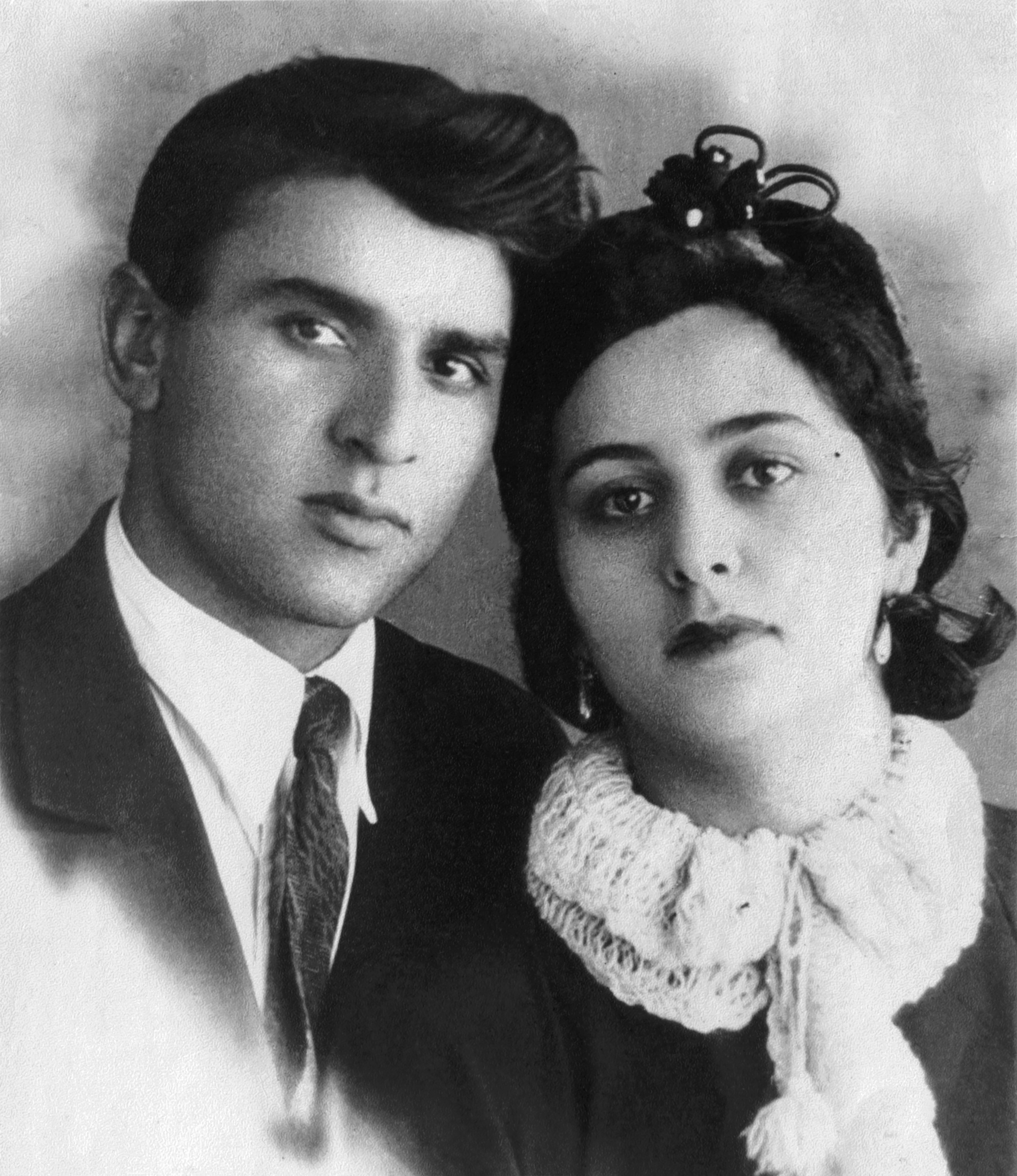 Mikayil Mushfig with his wife